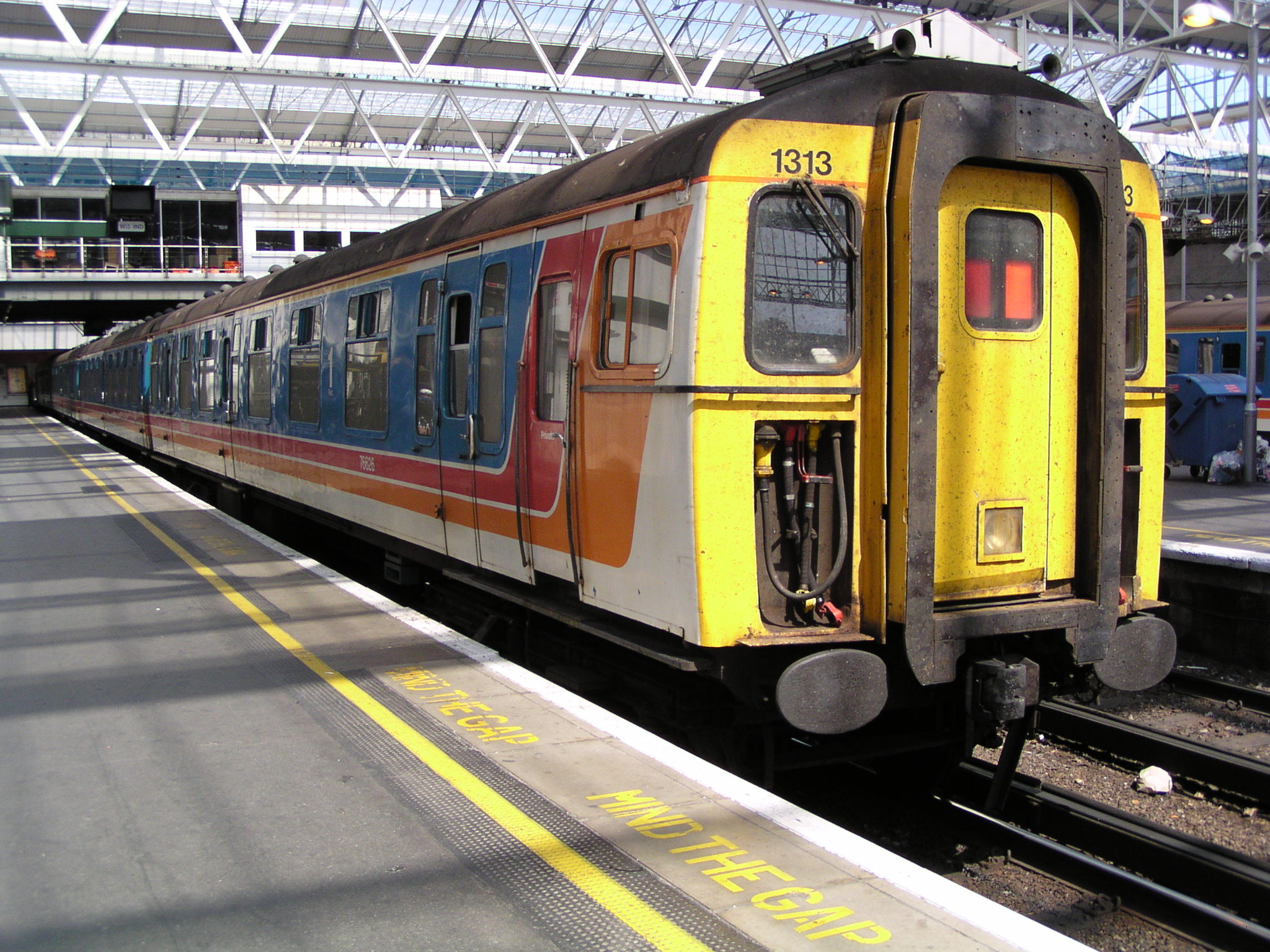 British Rail Class 421/5, no. 1313 at London Waterloo station. This was one of 22 "Greyhound" units operated by South West Trains. Following the replacement of the Class 421 fleet on South West Trains express services with the Class 444 Desiro units, this unit was withdrawn and scrapped.